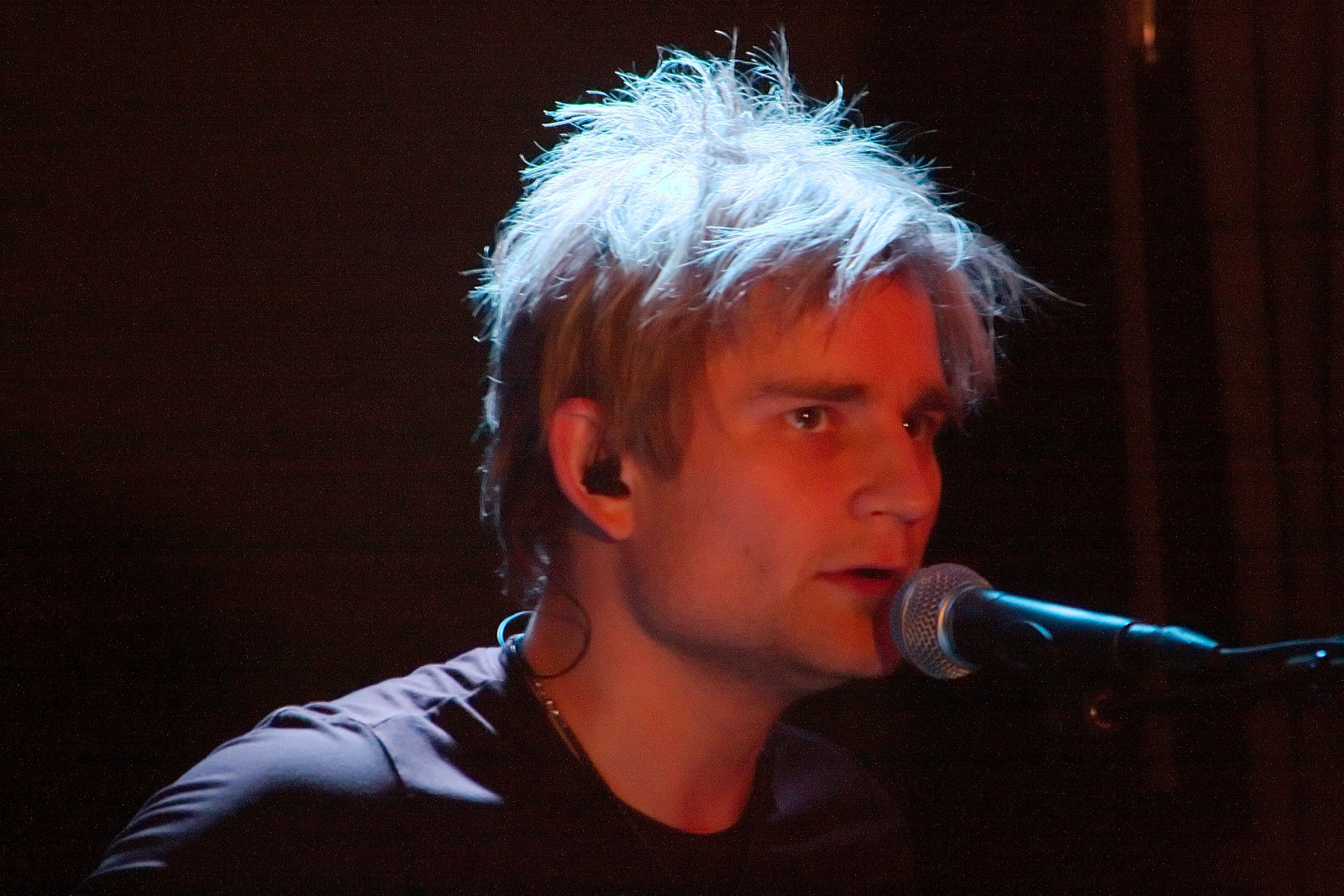 Lenni-Kalle Taipale playing with Hemma Beast in On the Rocks club, Helsinki, on April 5th 2009.